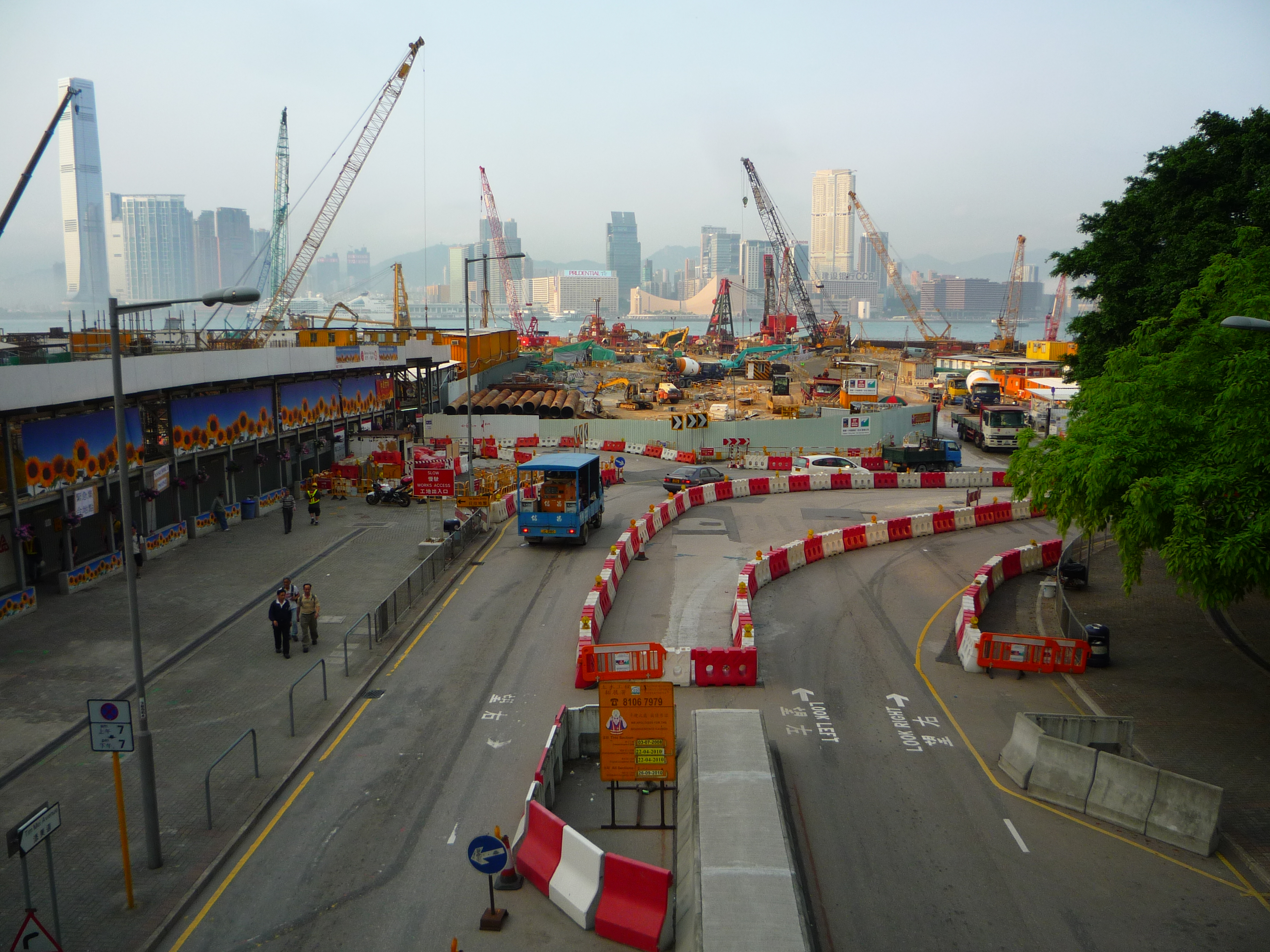 Admiralty Tamer Tim Mei Avenue